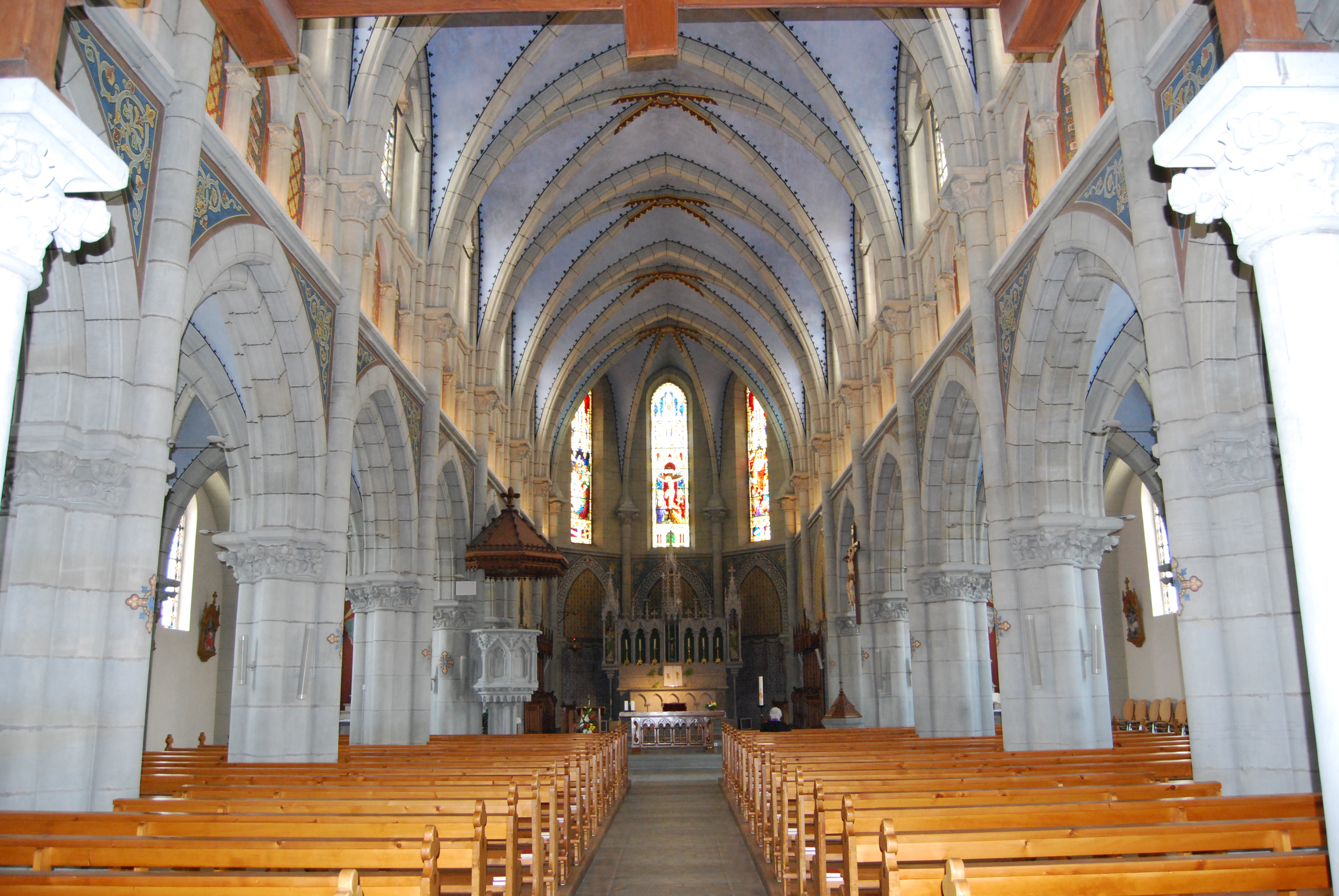 Church Saint Vincent at Farvagny, canton of Fribourg, Switzerland